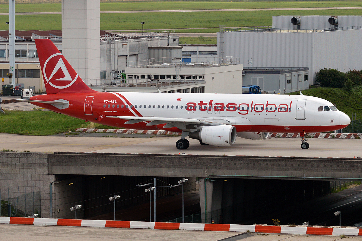 AtlasGlobal, TC-ABL, Airbus A320-214